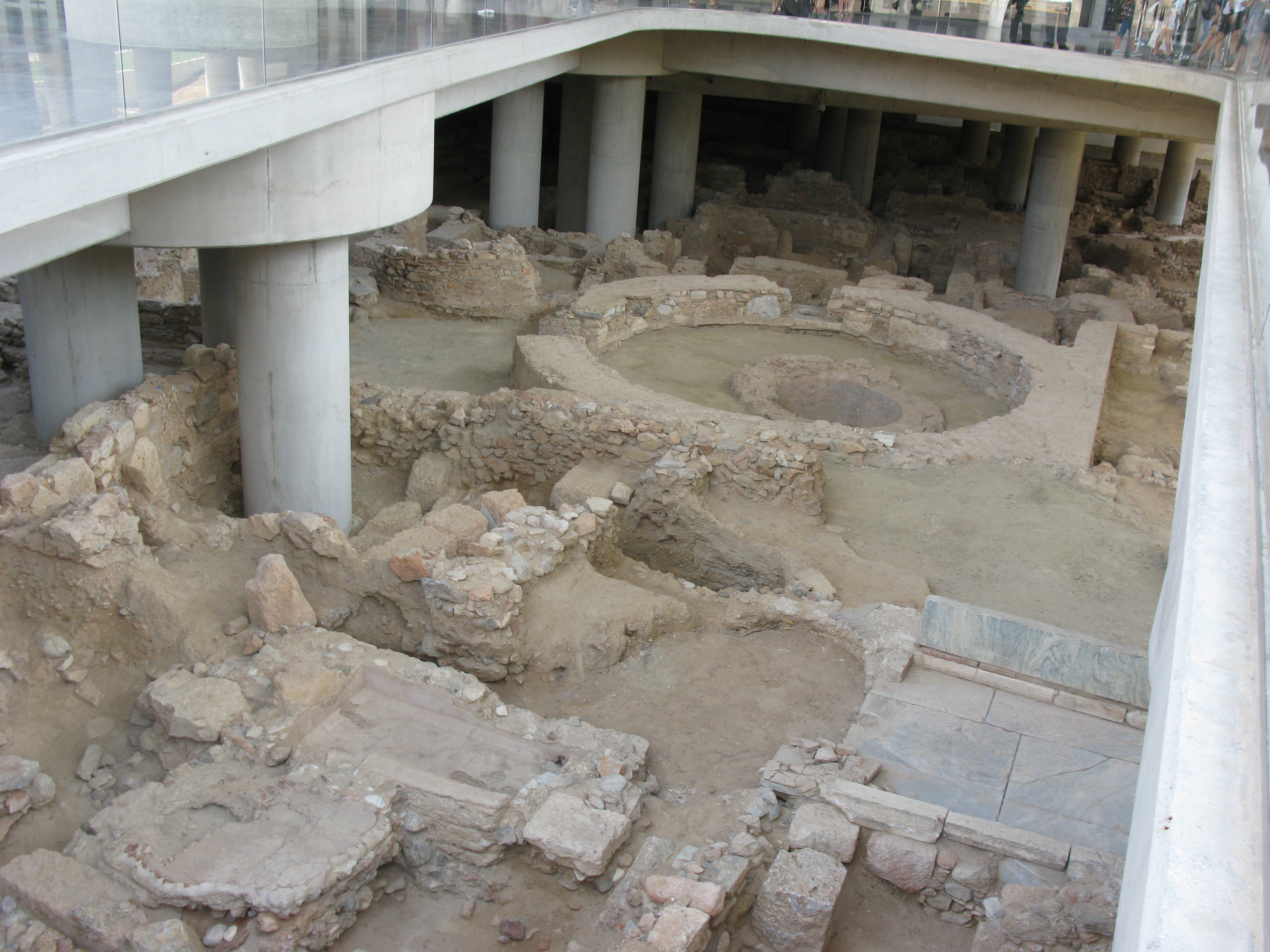 New Acropolis Museum, Athens. Ruins.